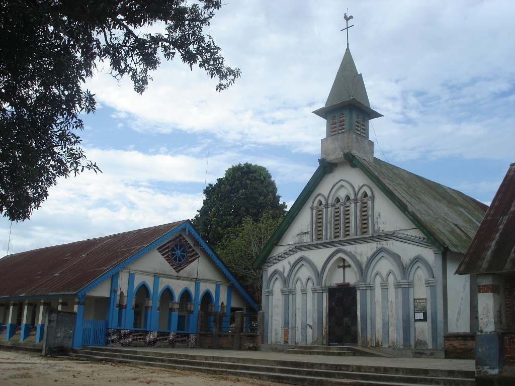 Church and mission post of St Gabriel, founded in 1897, just outside Kisangani.